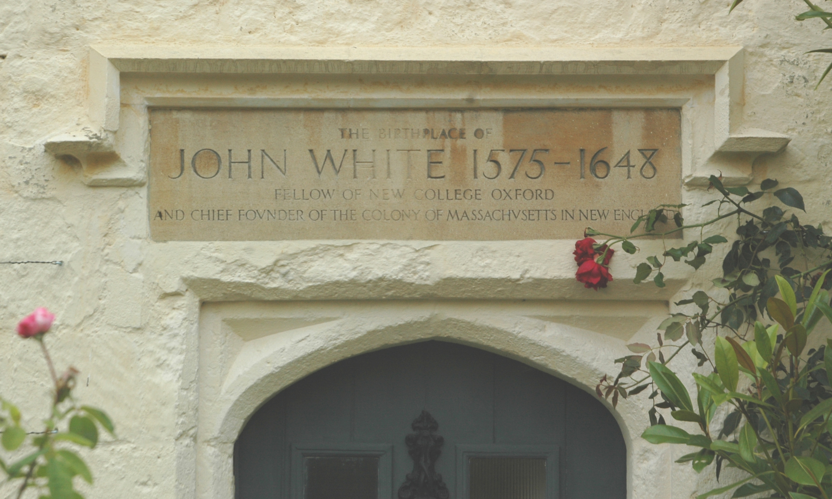 Plaque over the front door of John White's House, Stanton St John, Oxfordshire.